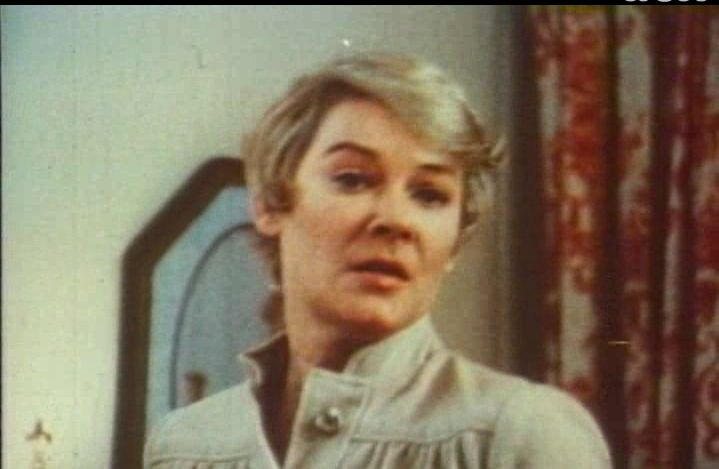 Cropped screenshot of Hope Lange from the trailer for the film Death Wish (1974).